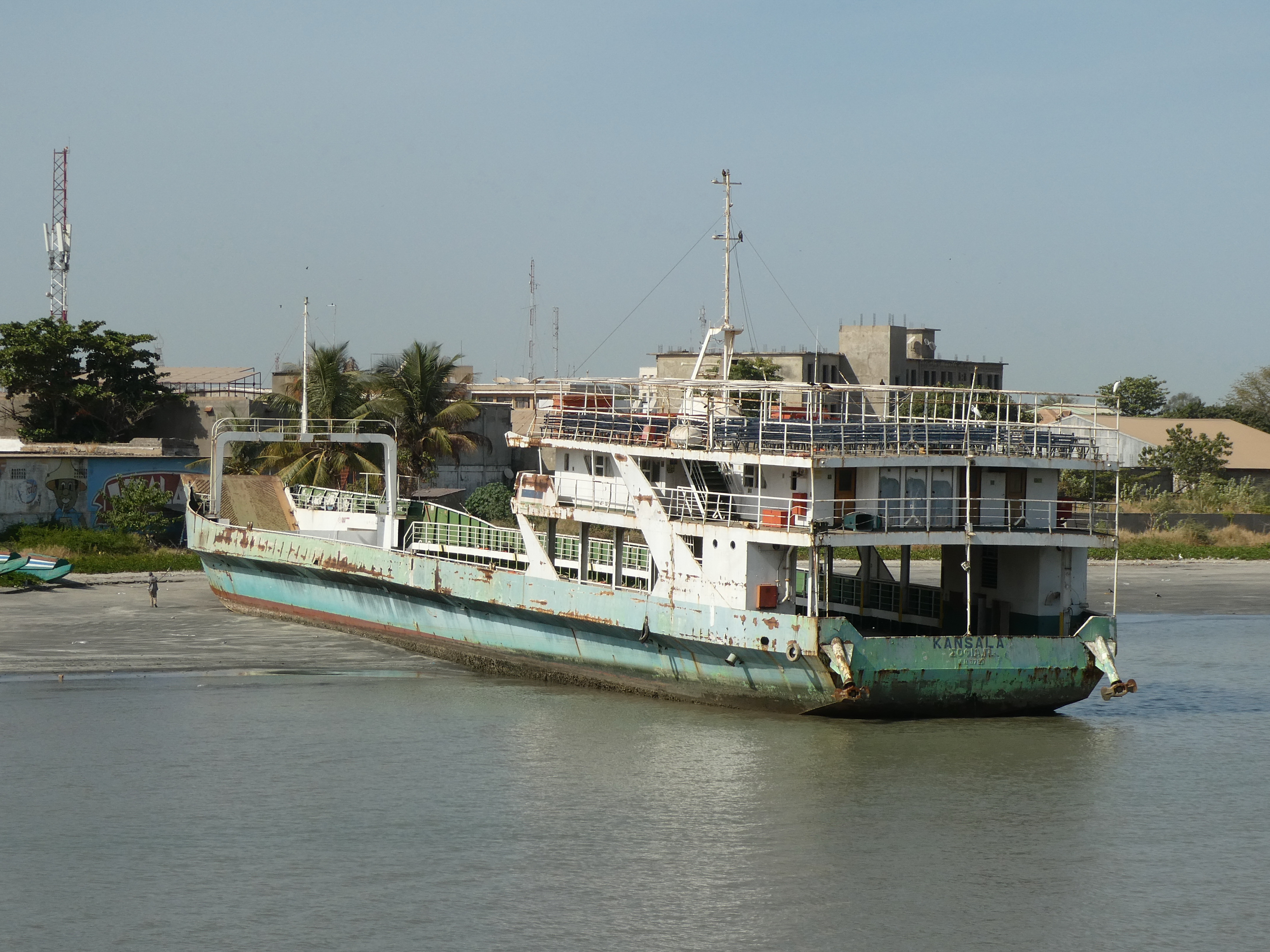 Ferry Kansala in Banjul Harbour